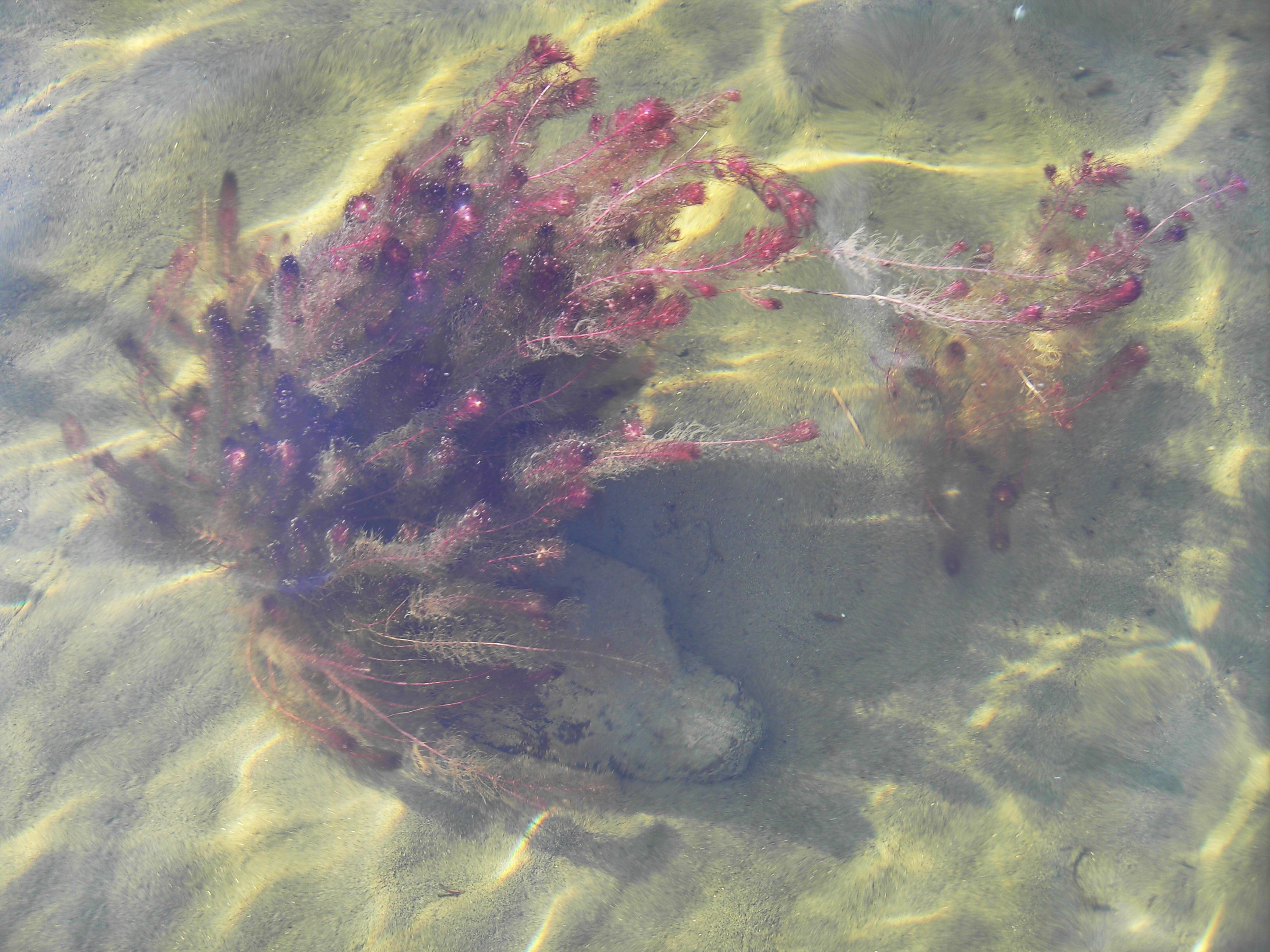 An aquatic plant in lake Stordalsvatnet in Åfjord